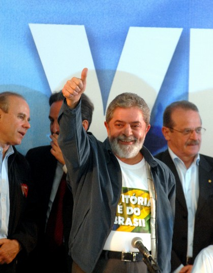 Luiz Inácio Lula da Silva, President of Brazil